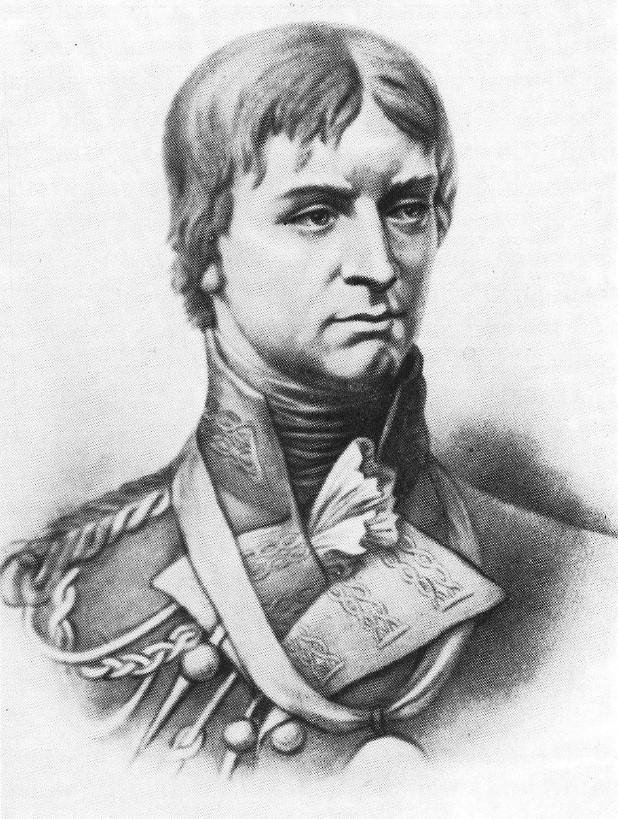 Major General Robert Craufurd (1764-1812)